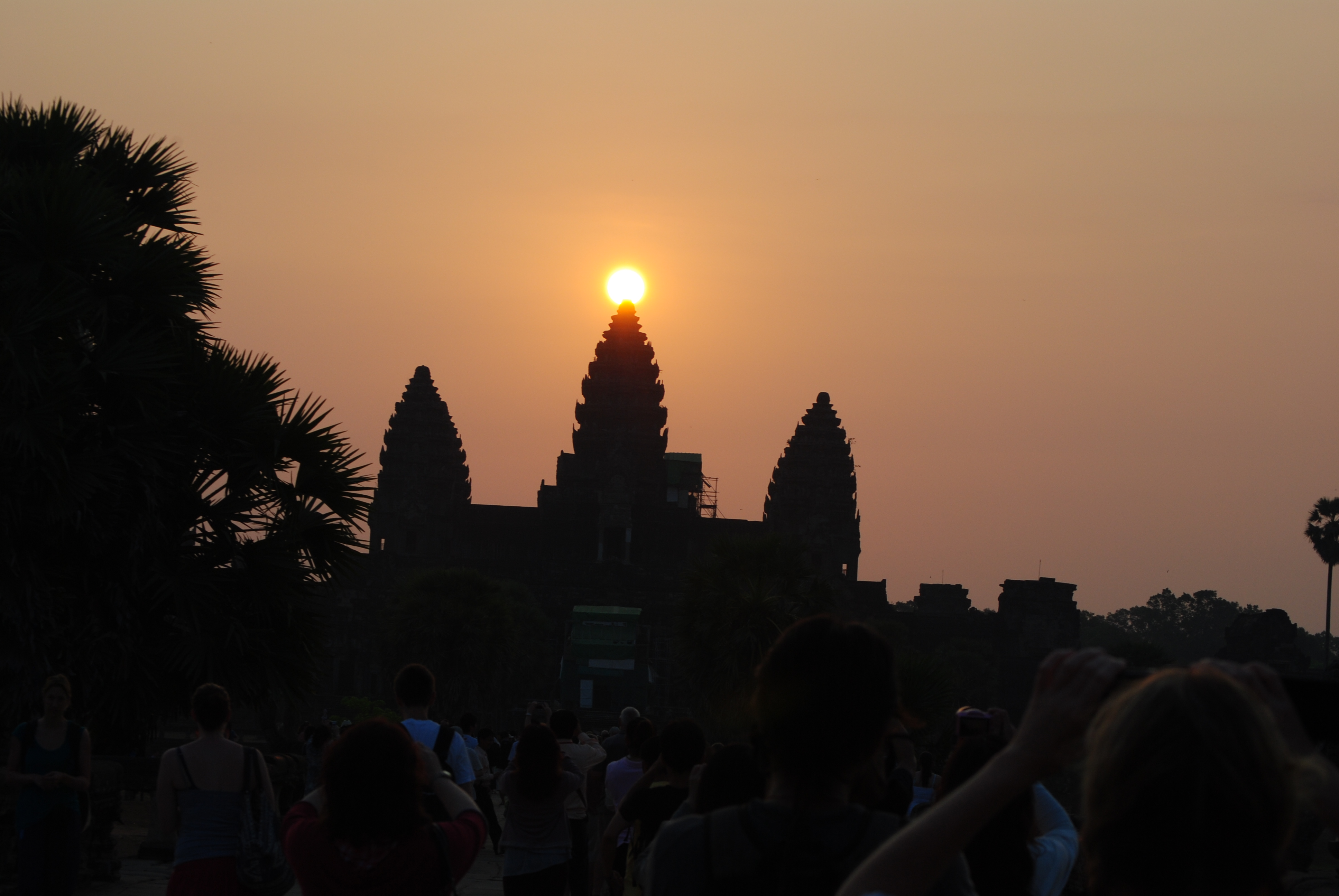 Cambodia is a nation whose ancestor understand clearly about the astronomy and build many temple precisely to the stars and planets on the cosmos. Each year on 21st March and 21st September the Sun will rise on top of the middle tower of Angkor Temple which represents the head of the Draco star system. Note that Cambodia is one of the derived dragon nation, as our first queen called Dragon Queen Sometime called Soma means The Moon. The term Ying-Yang Moon-Sun Dragon-Lion Lady-Man is how the name of our queen exists. Queen Soma : Queen of the MOON Neang Neak: DRAGON Queen Cambodia is the mother nation: LADY